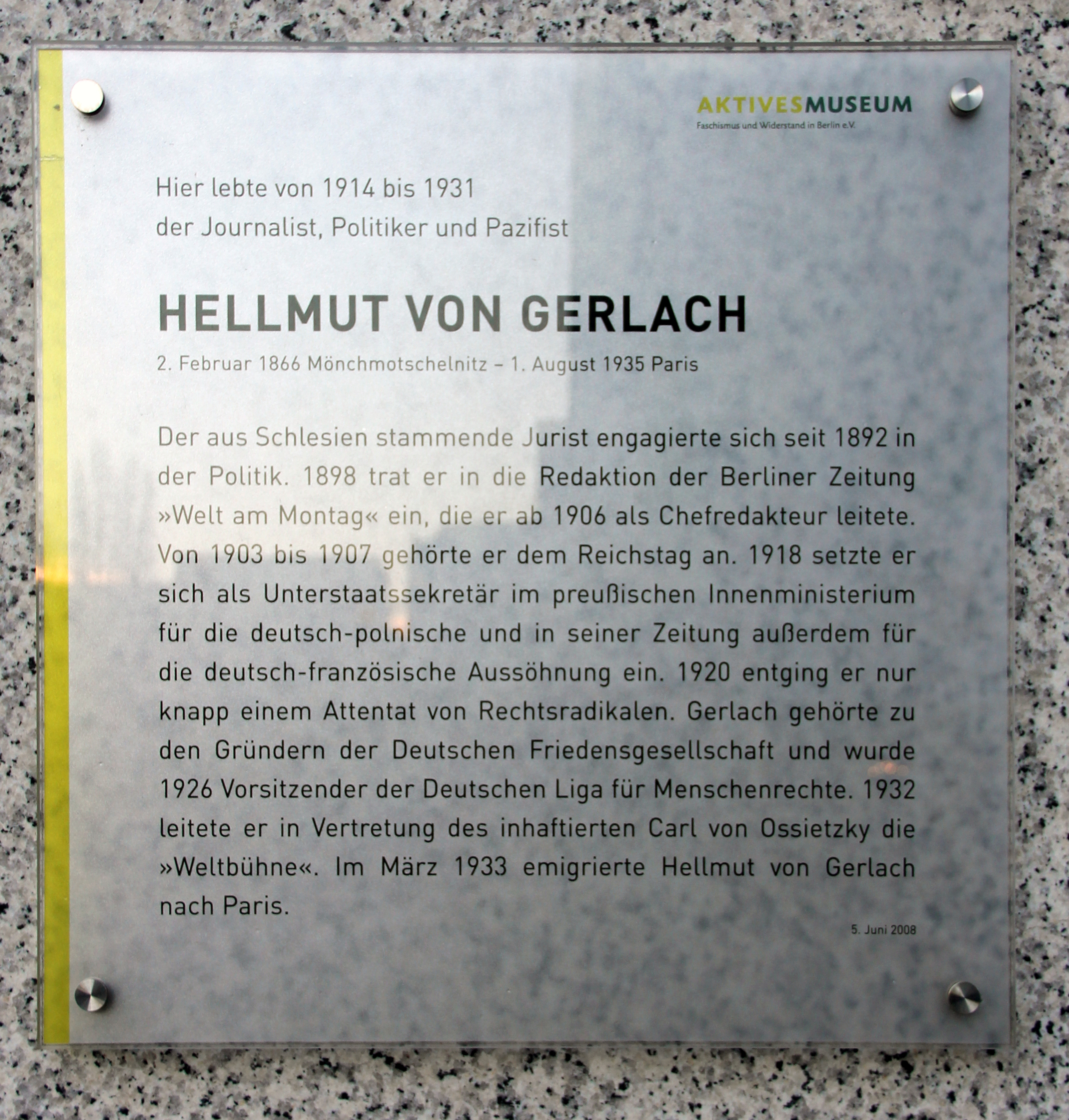 Memorial plaque, Hellmut von Gerlach, Genthiner Straße 48, Berlin-Tiergarten, Germany